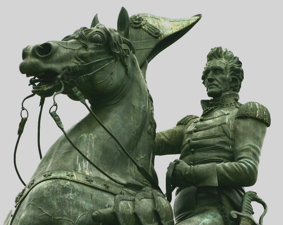 Andrew Jackson, equestrian statue at Layfayette Square